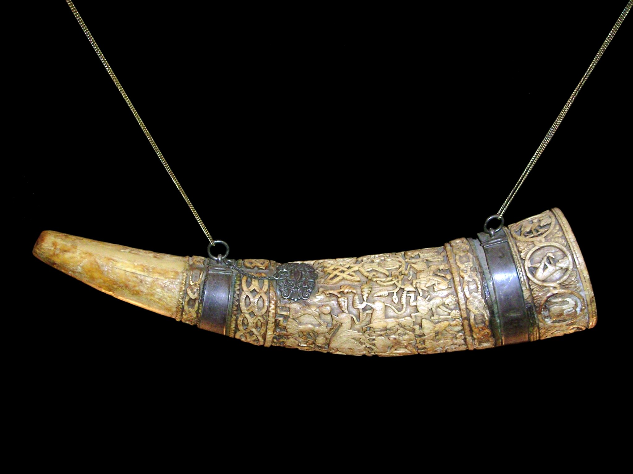 Lehel's horn, Jászberény, Hungary.